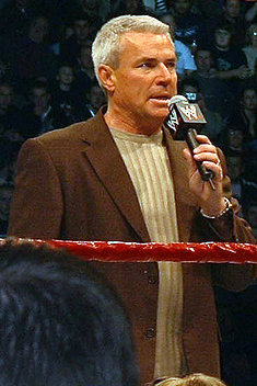 Eric Bischoff at a WWE house show in the MEN Arena in Manchester, United Kingdom on 17 November, 2005.